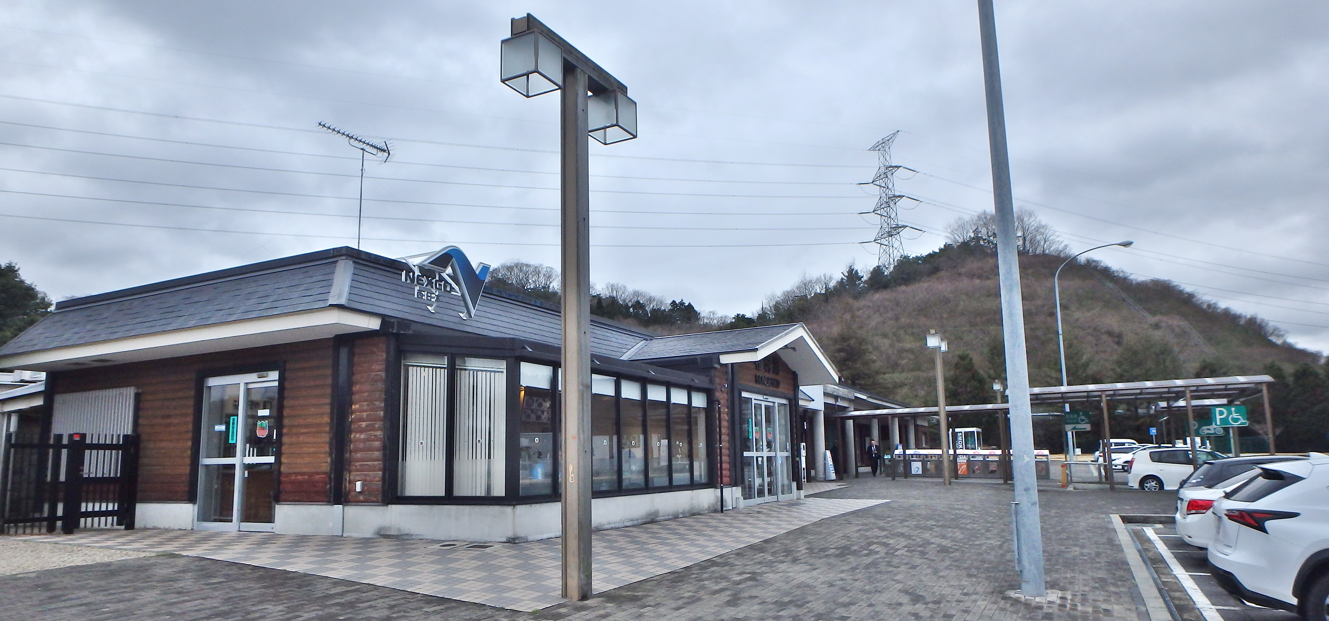 Gongenko Parking Area for Kobe,Hyogo prefecture,Japan